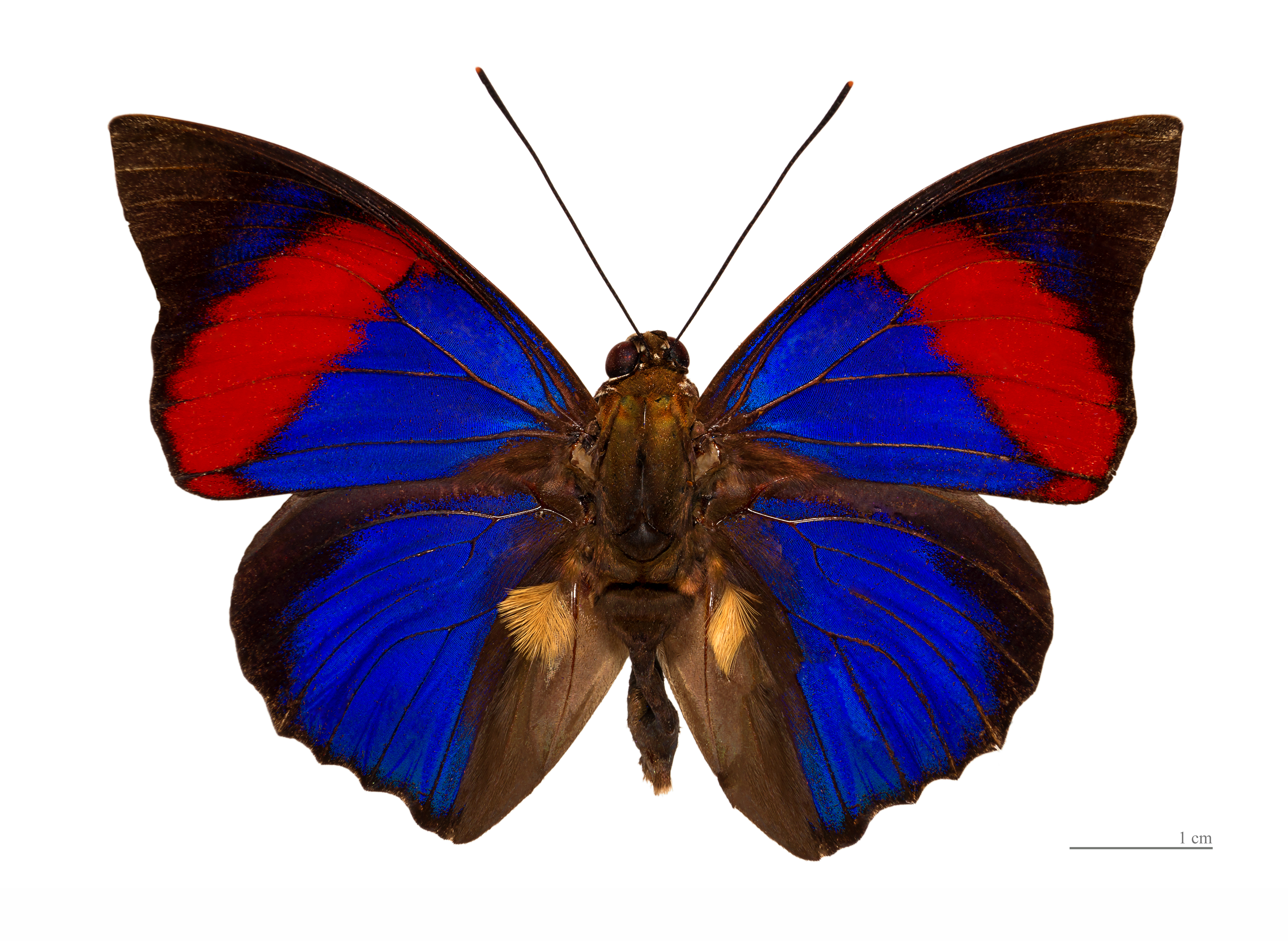 ♂ - Dorsal side Locality : Cacao, Crique Baguot, French Guiana.